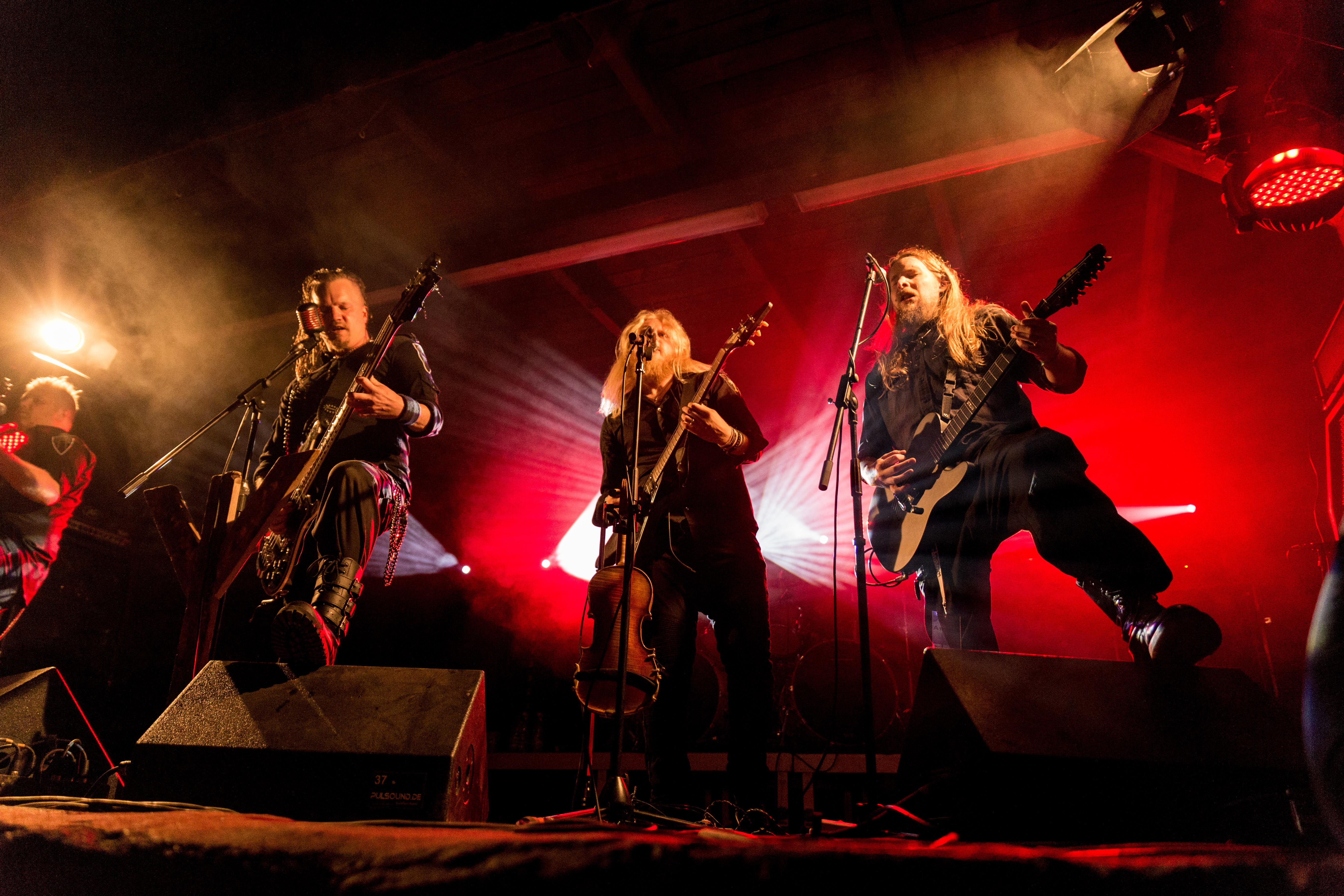 The Swedish viking metal band Månegarm at the Dark Troll Open Air 2017 in Bornstedt/Germany.